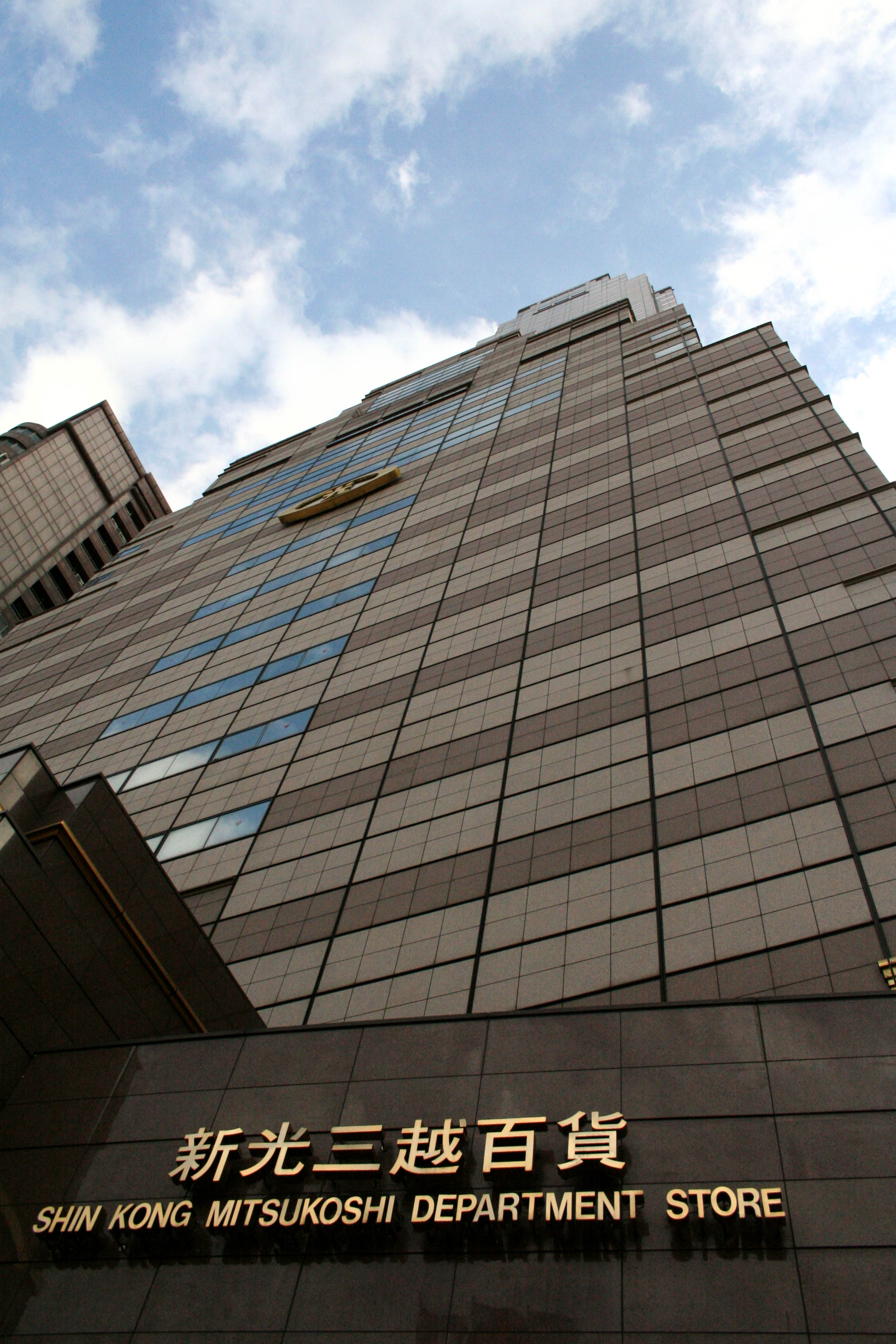 Shin Kong Mitsukoshi Department Store in Taipei Main Station.